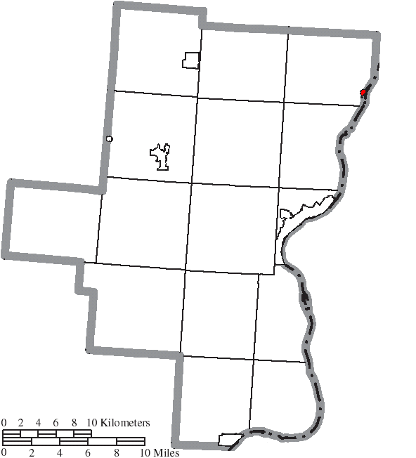 Map of the municipal and township boundaries of Gallia County, Ohio, United States, as of the 2000 census, with the location of the village of Cheshire highlighted. Township borders are shown only in unincorporated areas in order to differentiate incorporated and unincorporated areas more clearly.